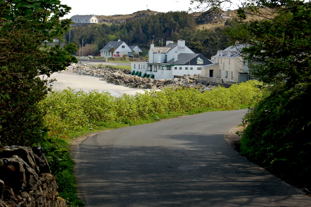 Aranmore Island - Main coastal road to Aphort We walked down this road to see a bit of the island.